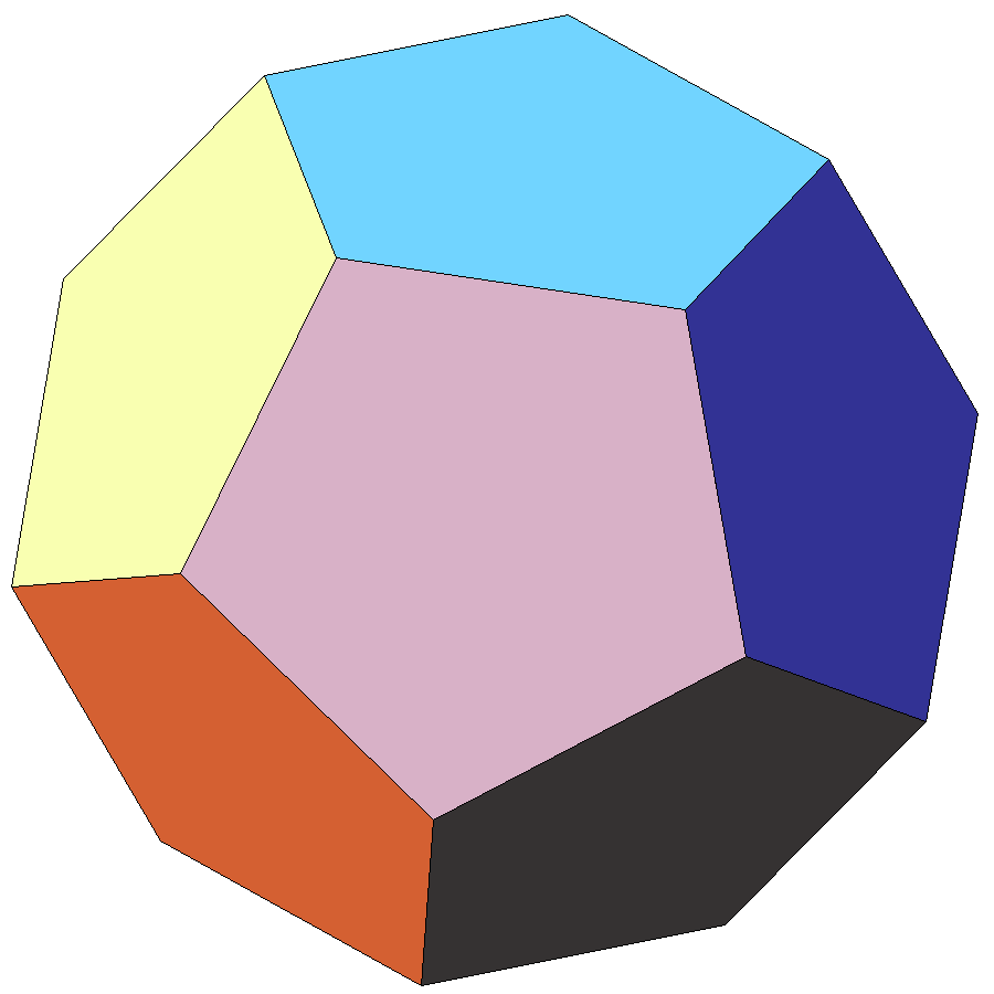 Zeroth stellation of dodecahedron